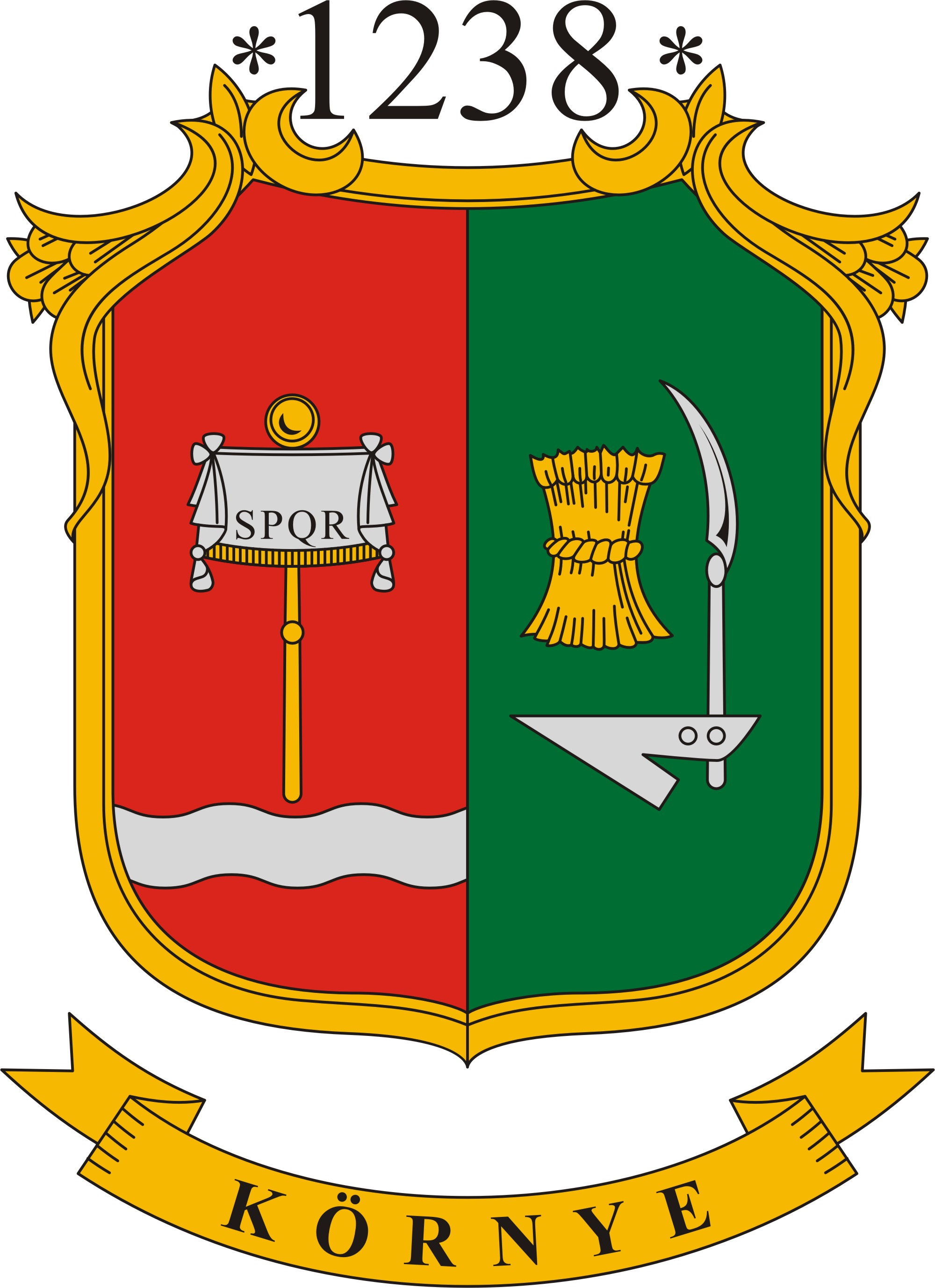 Coat of arms of Környe, Hungary